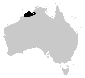 Distribution of the Magnificent Tree Frog, Litoria splendida.